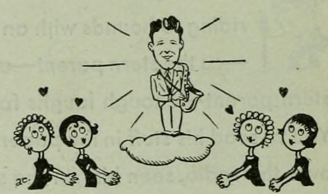 Caricature of Rudy Vallee